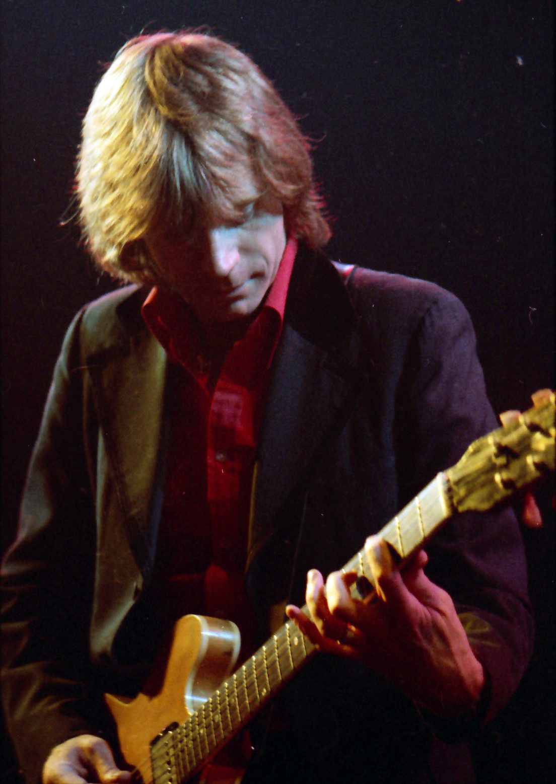 Dave Edmunds performs with band Rockpile at Danforth Music Hall, Toronto.